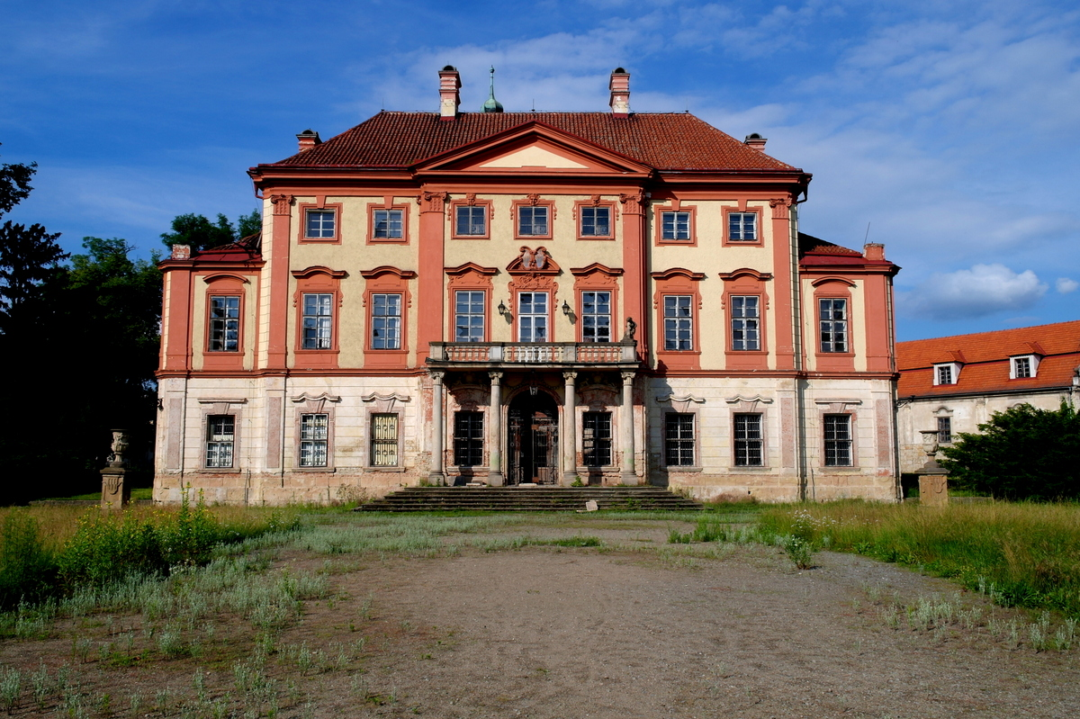 Liběchov Castle, Liběchov, Mělník District. View from the castle park.